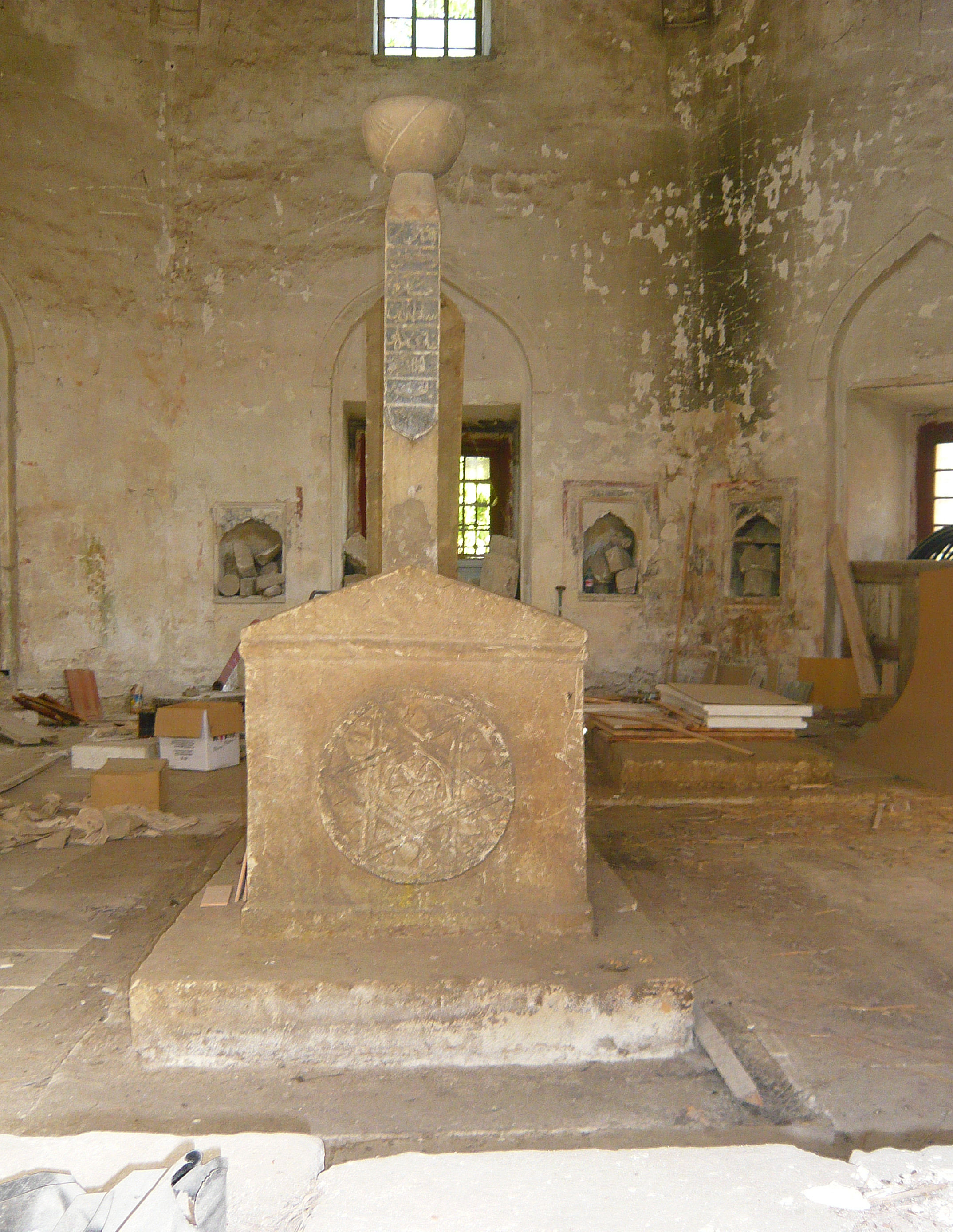 Khans cemetery in Bakhchisaray Palace